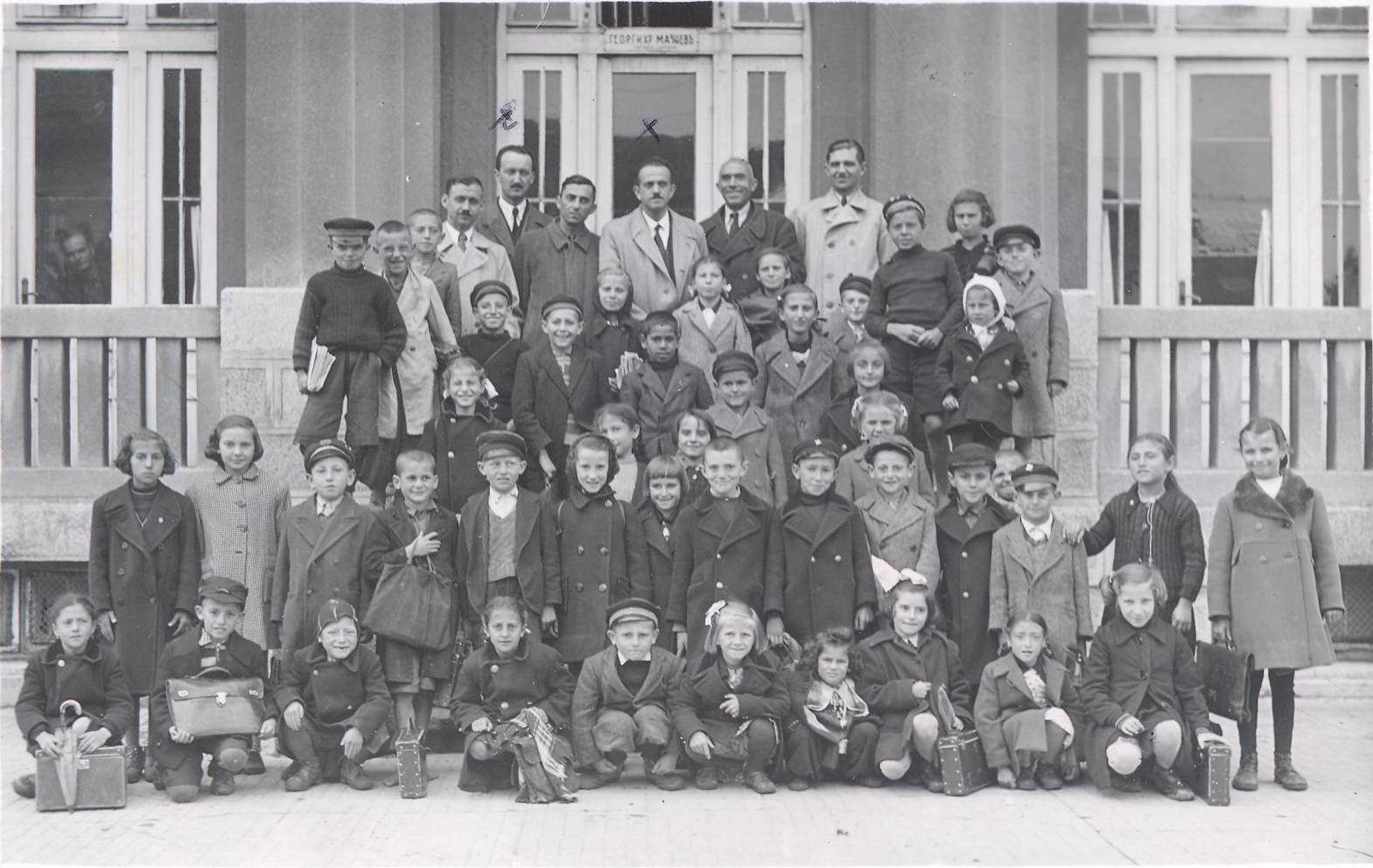 Bulgarian writer Svetozar Dimitrov (Zmey Goryanin) and Lyubomir Doychev in Samokov, 1942.